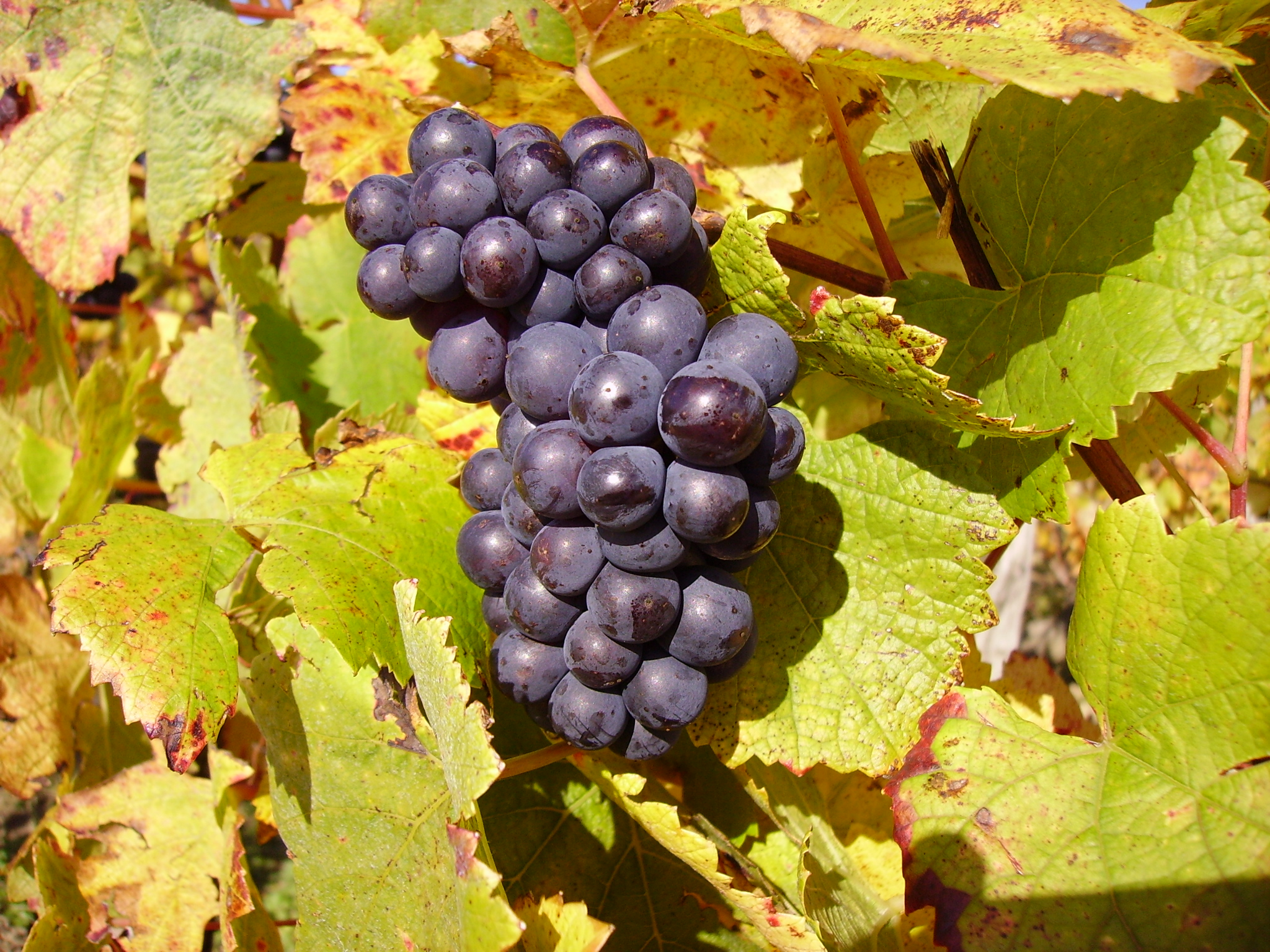 Pinot noir grapes growing near the village of Bué, Centre, France. Photo taken on the occasion of the 30th edition of Vineyard rally in 2007.